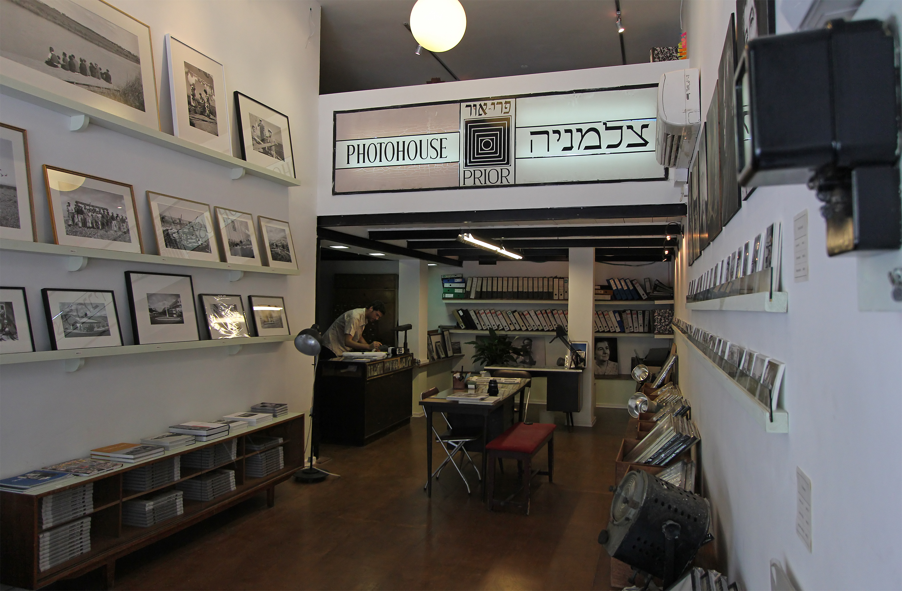 Photo Prior, shop and archive of photographer Rudi Weissenstein in Tel Aviv